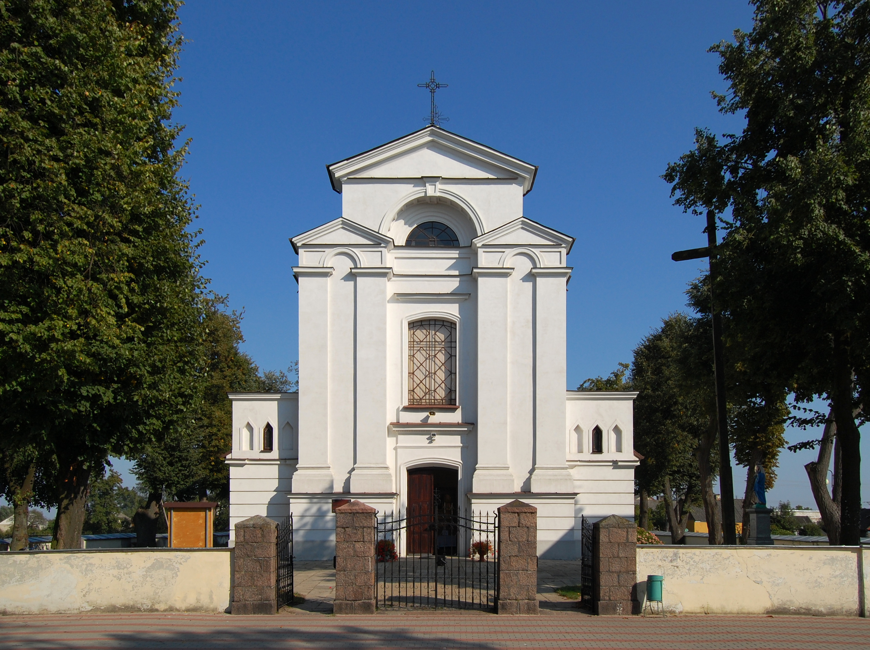 Church in Adamów, Łuków County, Lublin Voivodship, Poland.